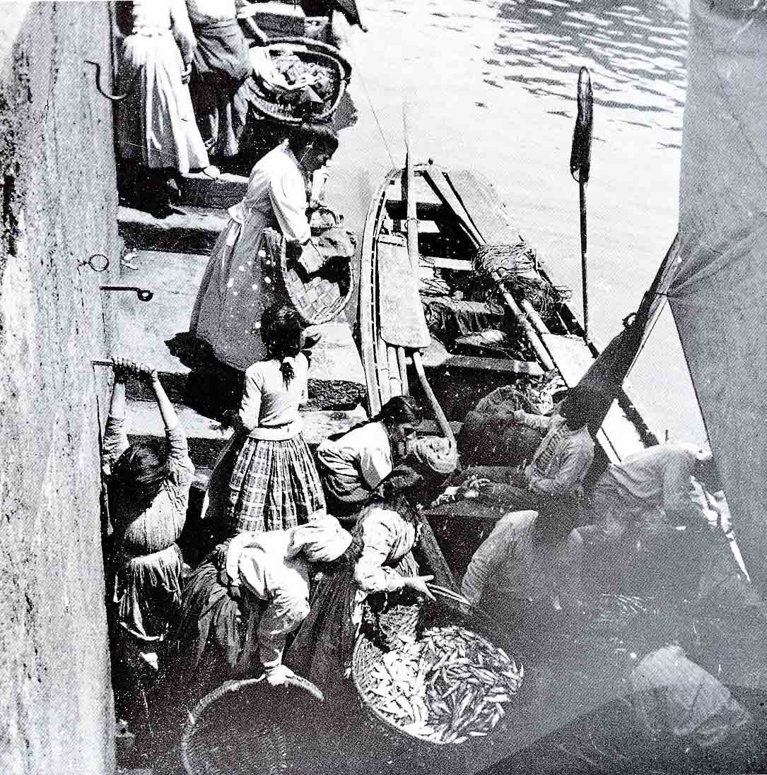 Eulalia de Abaitua y Allende-Sardine group. Photographer died in 1943.